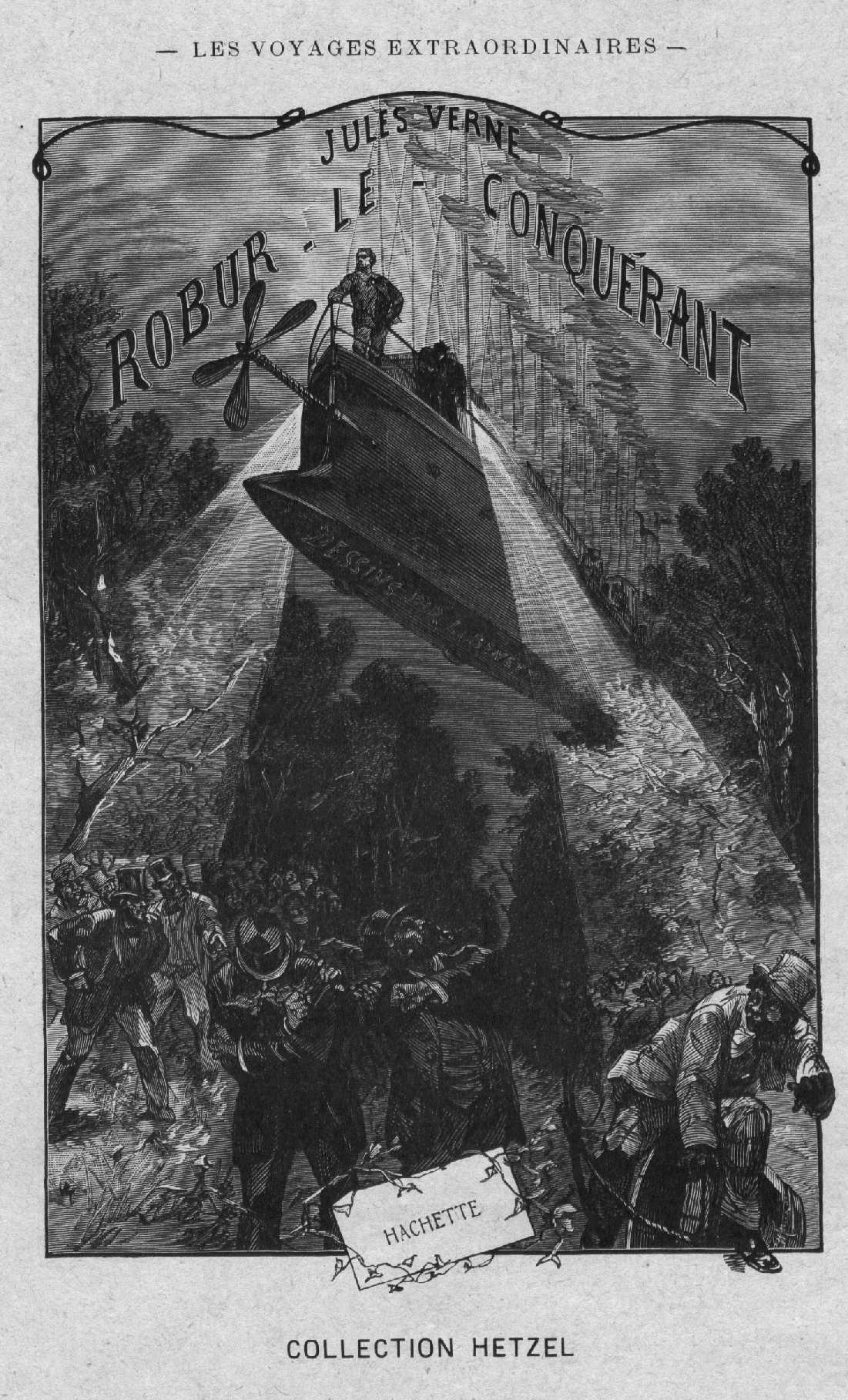 Ilustration of Léona Benetta to novel Jules Verne Robur le Conquérant.